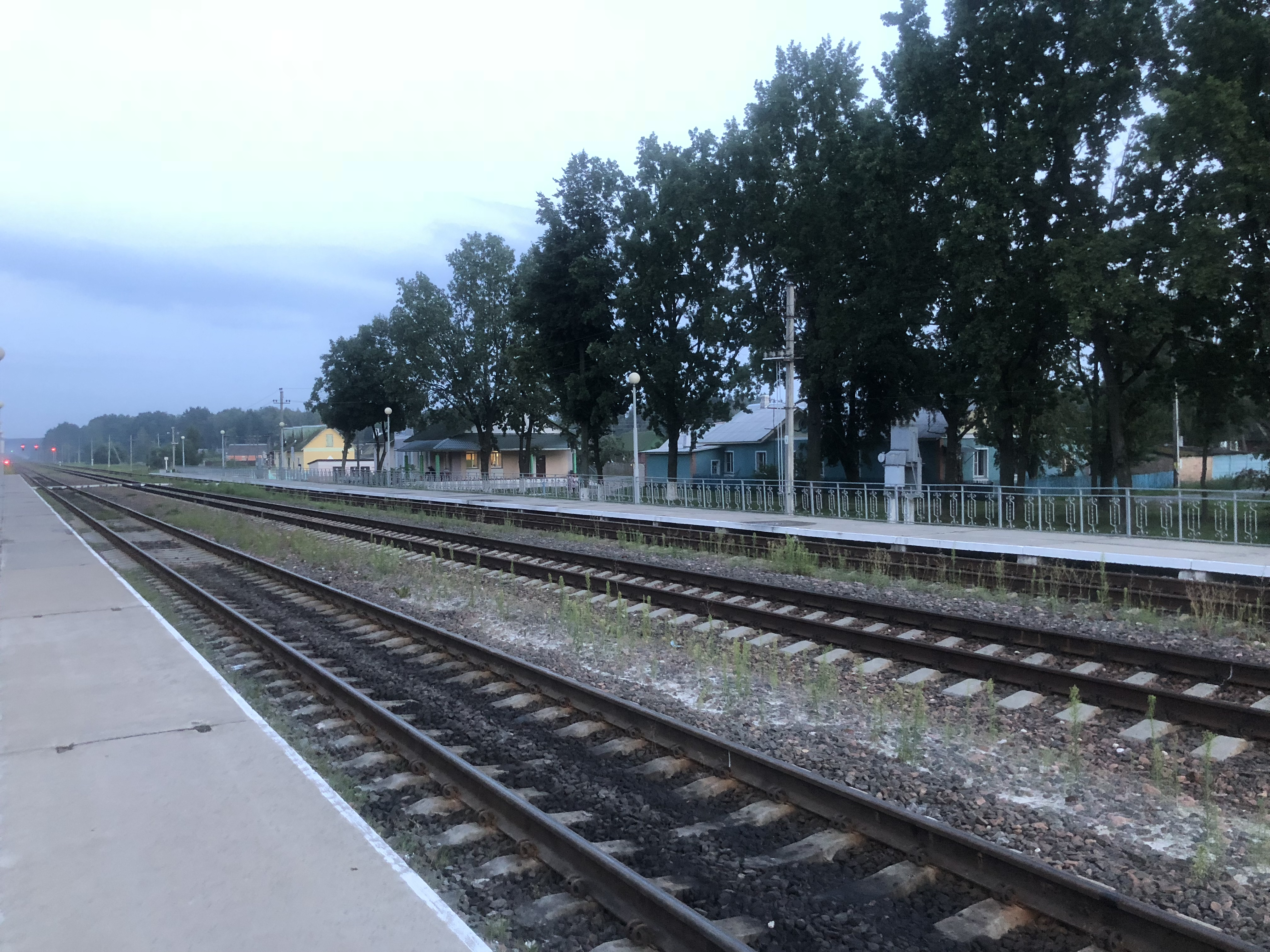 Korenevka, Gomel Region, Railway station, 2018 july